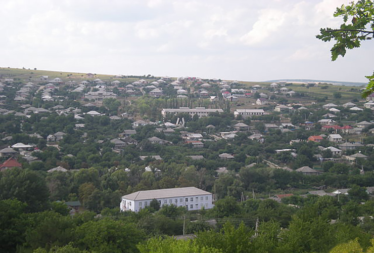 Satul Bardar vedere din dealul chirieci.